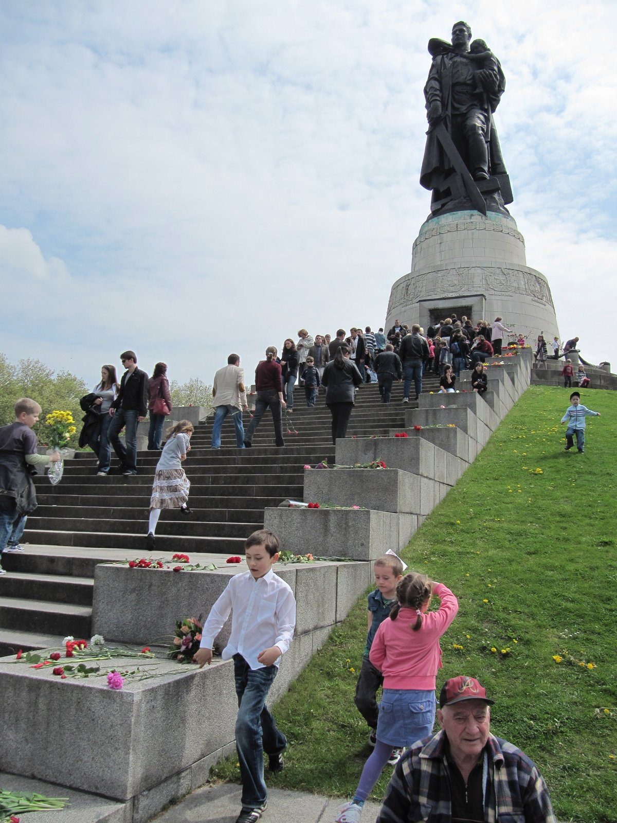 Celebration on the 65. anniversary of the (russian) victory day in Berlin, Germany, at the Soviet War Memorial in Treptow.